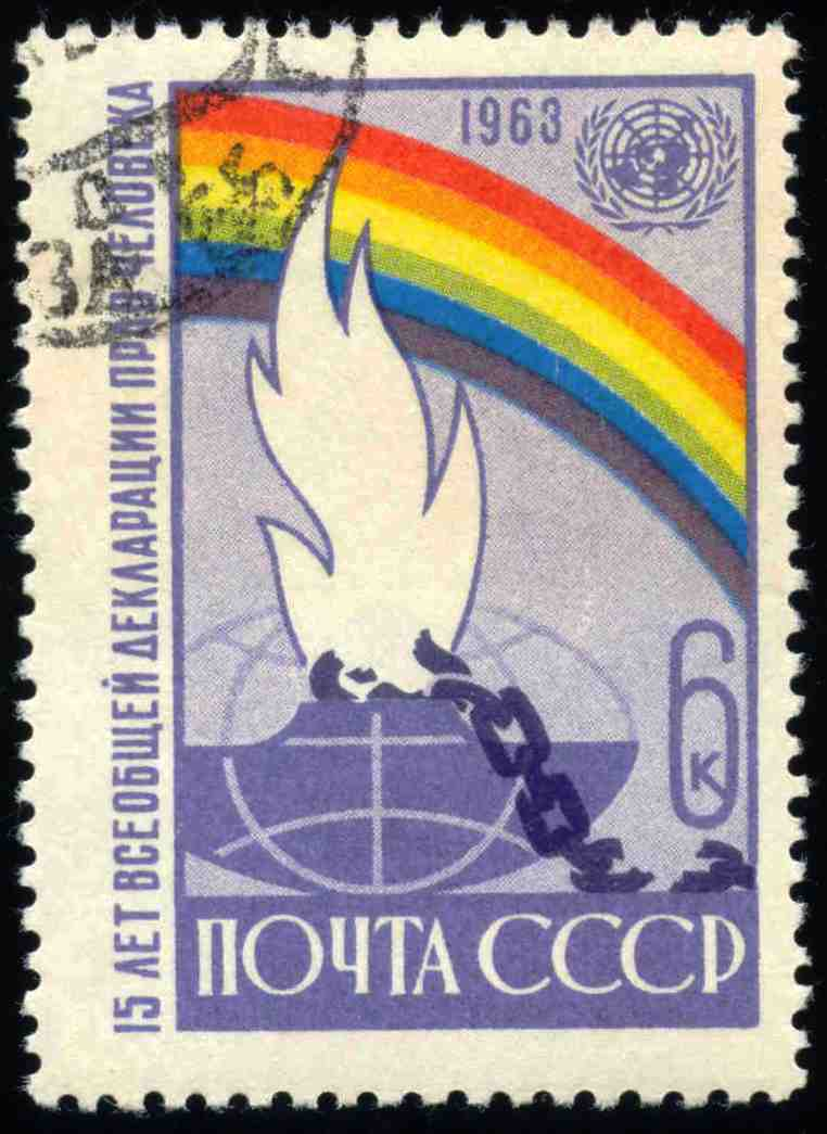 Soviet Union stamp, 15th anniversary of Universal Human Rights Declaration, end of colonialism; 1963, 6 kop., used, CPA No. 2963.